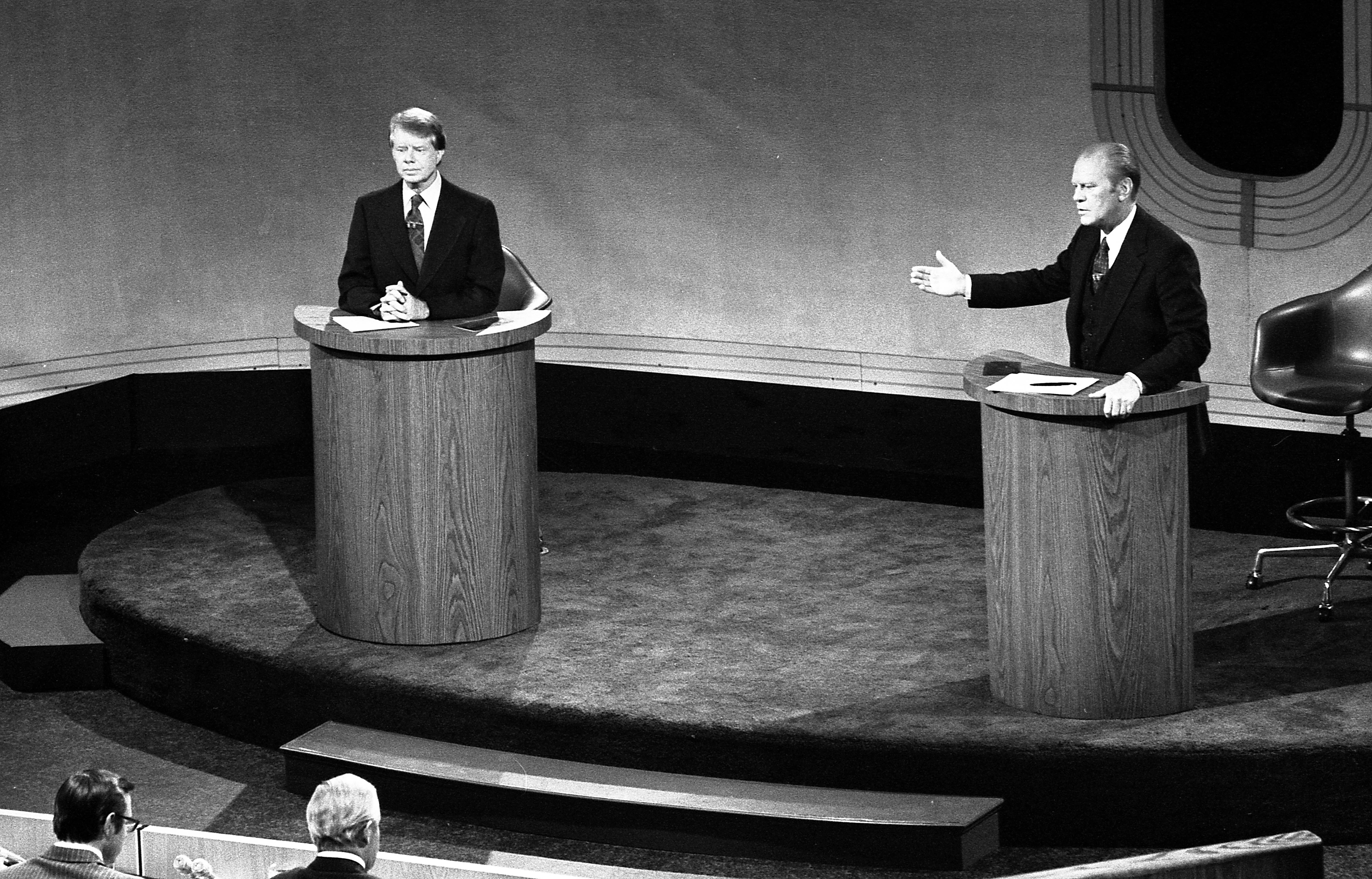 President Gerald Ford and Jimmy Carter meet at the Walnut Street Theater in Philadelphia to debate domestic policy during the first of the three Ford-Carter Debates.